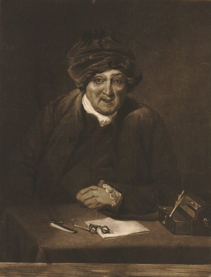 Portrait of Thomas Kirkland (1721–1798), English physician.